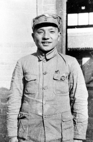 1937 Deng Xiaoping in NRA uniform. 1937年，任八路军总部政治部副主任的邓小平。